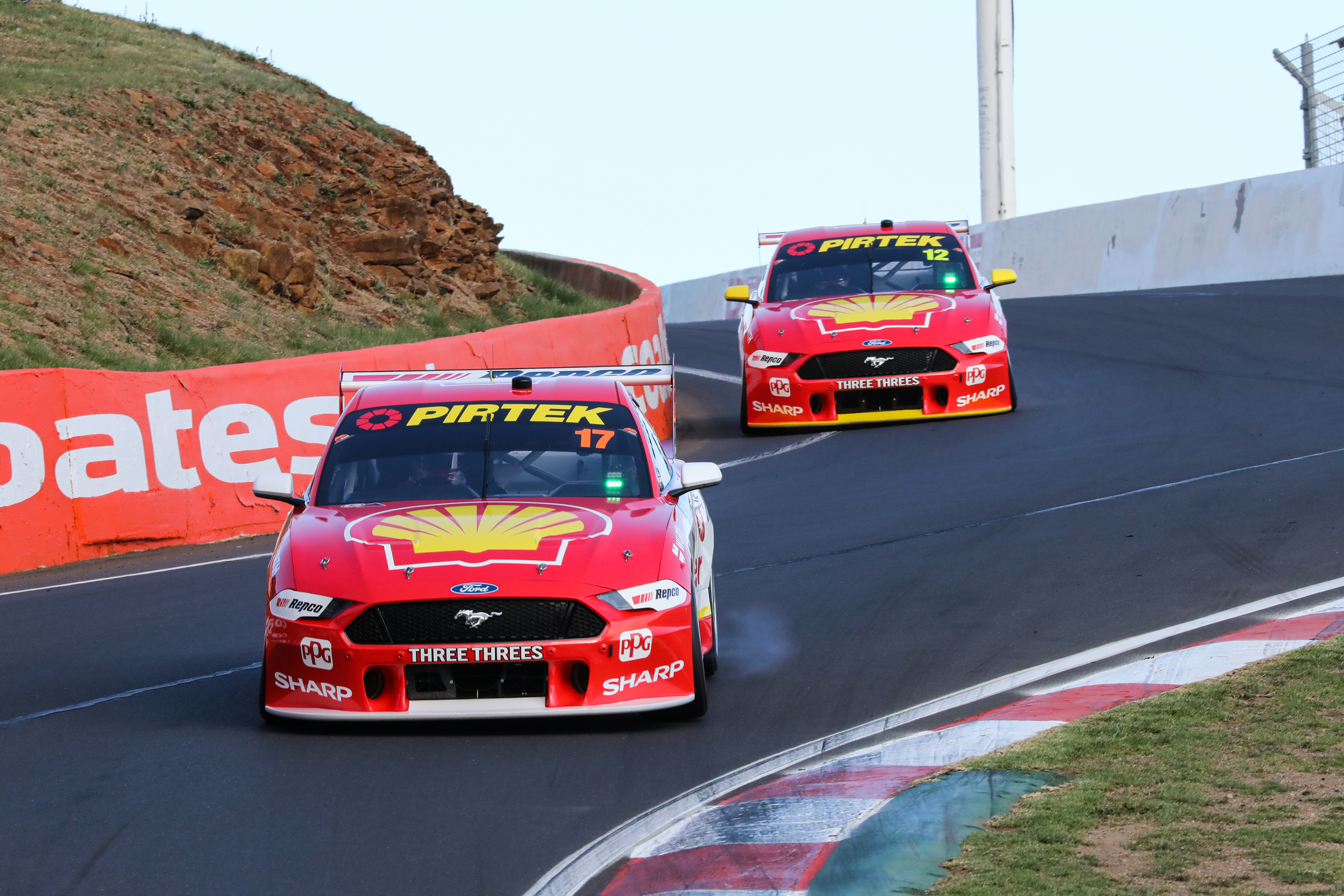 Alex Premat leads Tony D'Alberto during Practice 4 at the 2019 Supercheap Auto Bathurst 1000.